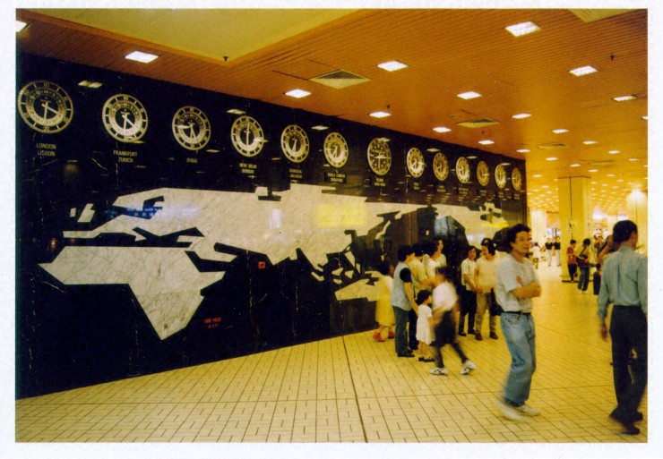 Departure Terminal of Kai Tak Airport